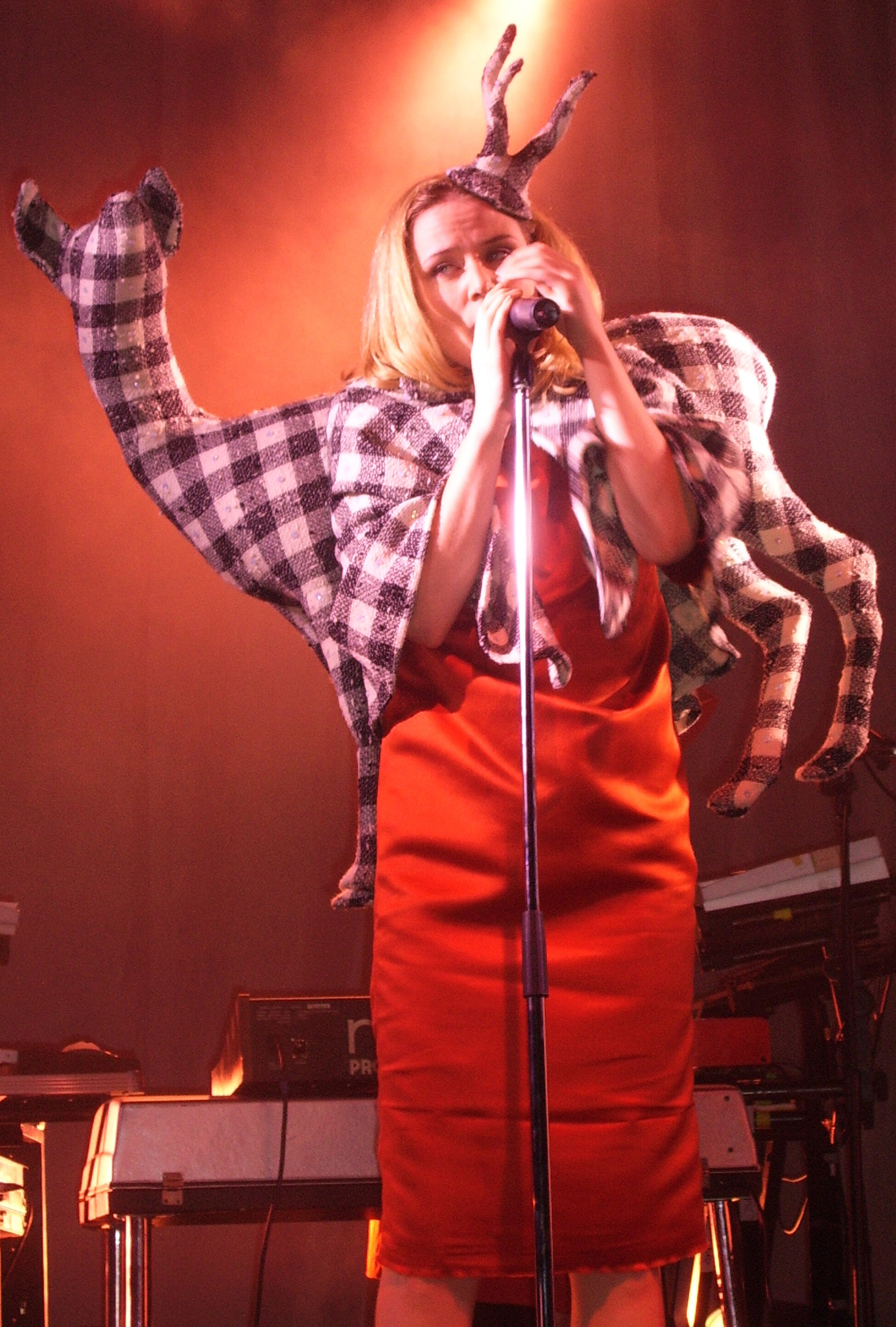 Róisín Murphy live in Sofia, Bulgaria.